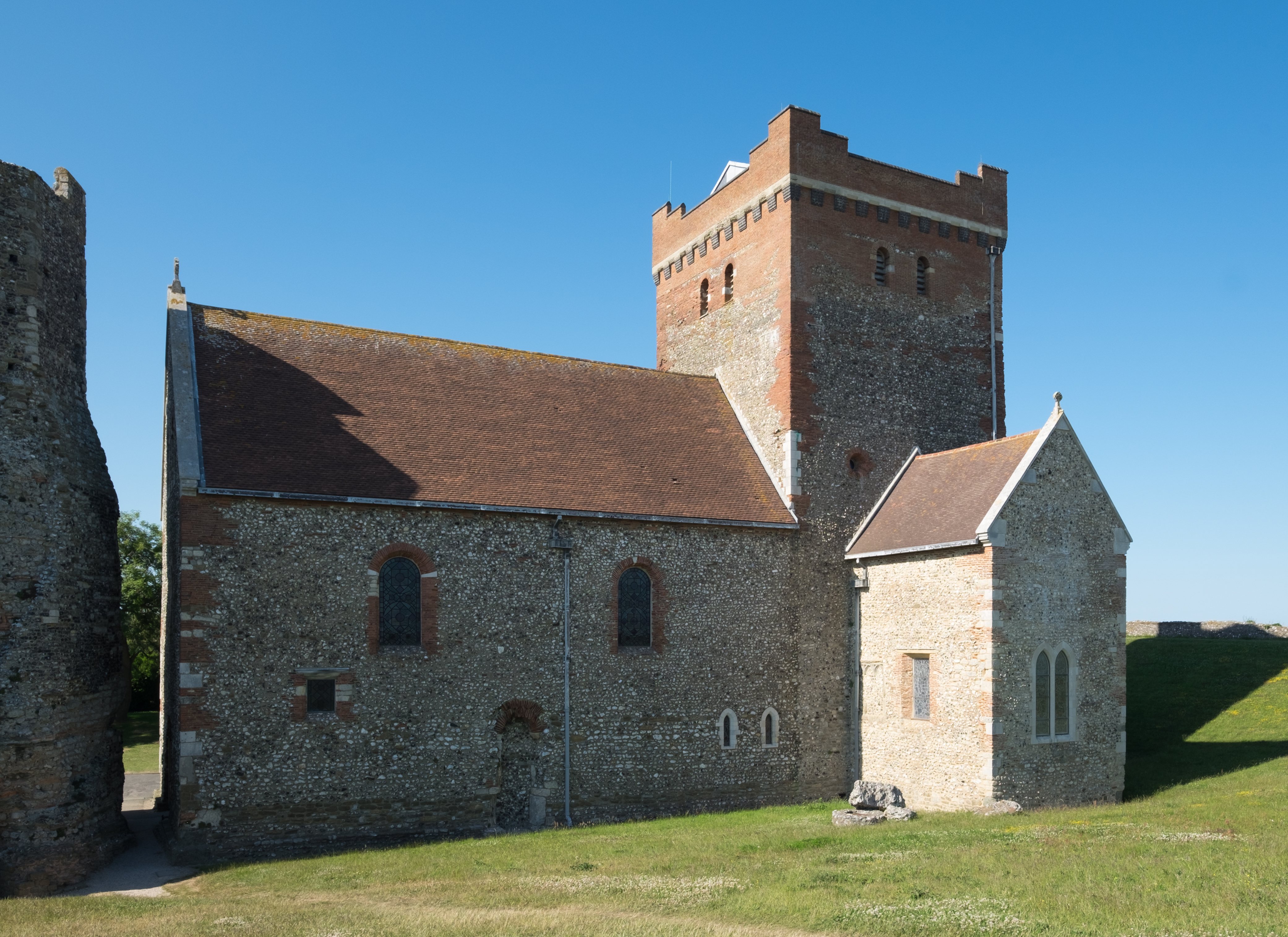 The Church of St Mary-in-Castro, Dover Castle. This church, founded by 1020 and build next to a Roman lighthouse, is a grade I listed building in England.